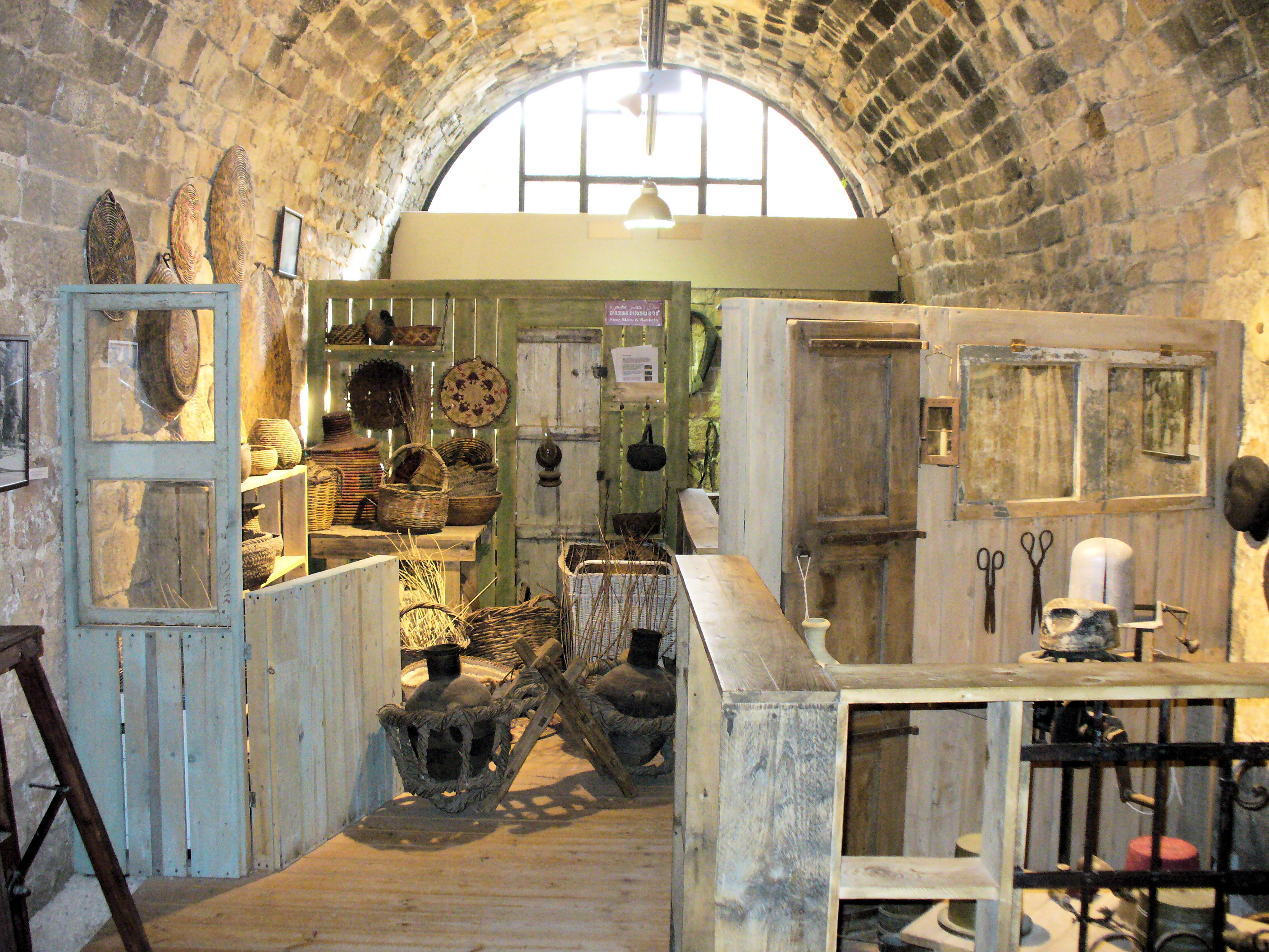 Treasures in the Walls, Ethnographic Museum, Acre, Israel